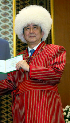 Gurtnyýaz Nurlyýewiç Hanmyradow, Rector of Turkmen State University named after Magtymguly, appointed Shinzō Abe as the Emeritus Professor at Turkmen State University named after Magtymguly in Ashgabat City on October 23, 2015.